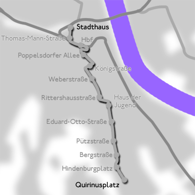 Bonn – tramway Bonn Hauptbahnhof – Südstadt – Kessenich – Dottendorf